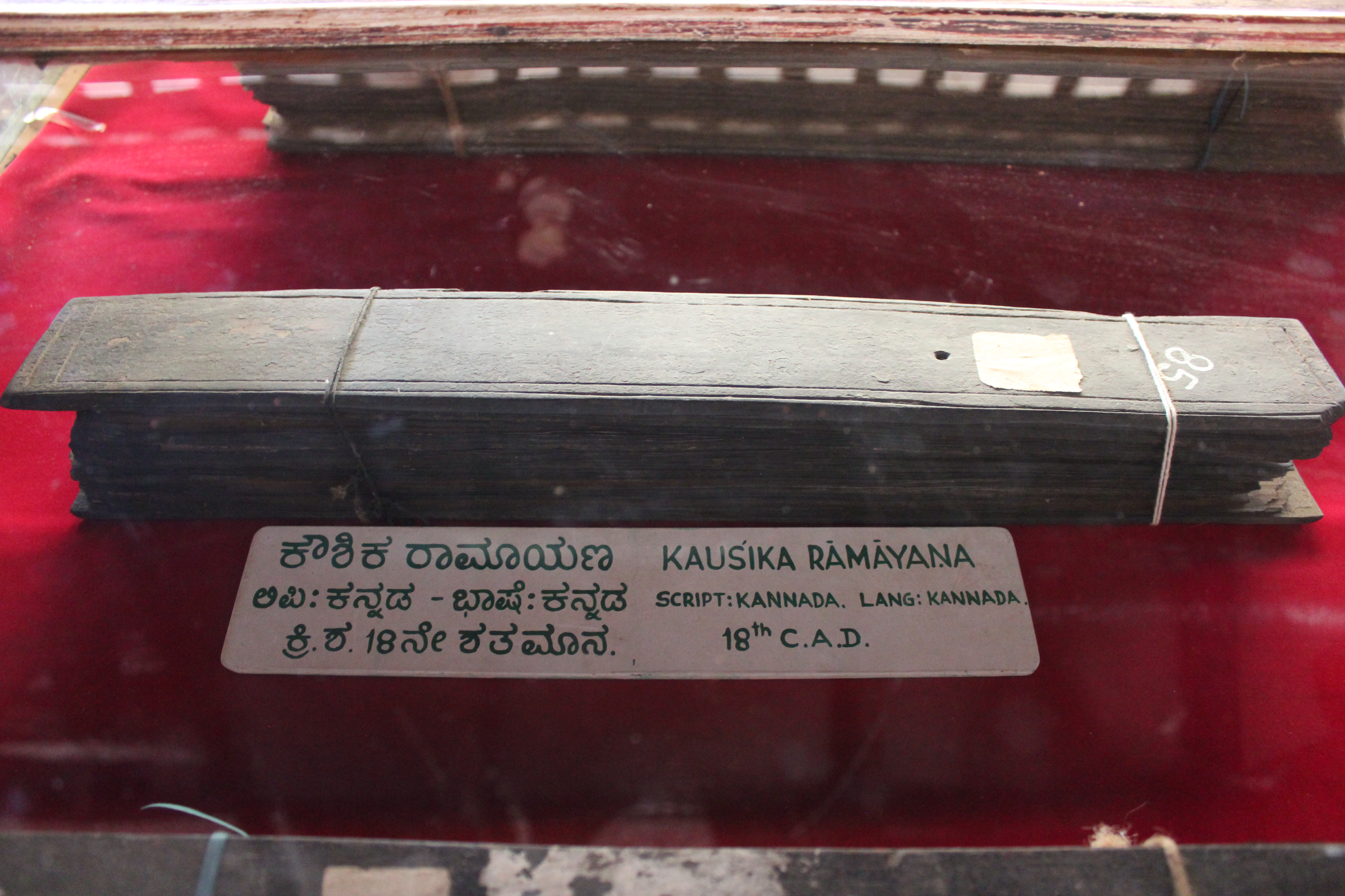 This photograph was taken at the Shivappa Nayaka palace and museum in Shivamogga city (formerly Shimoga) in Karnataka state, India